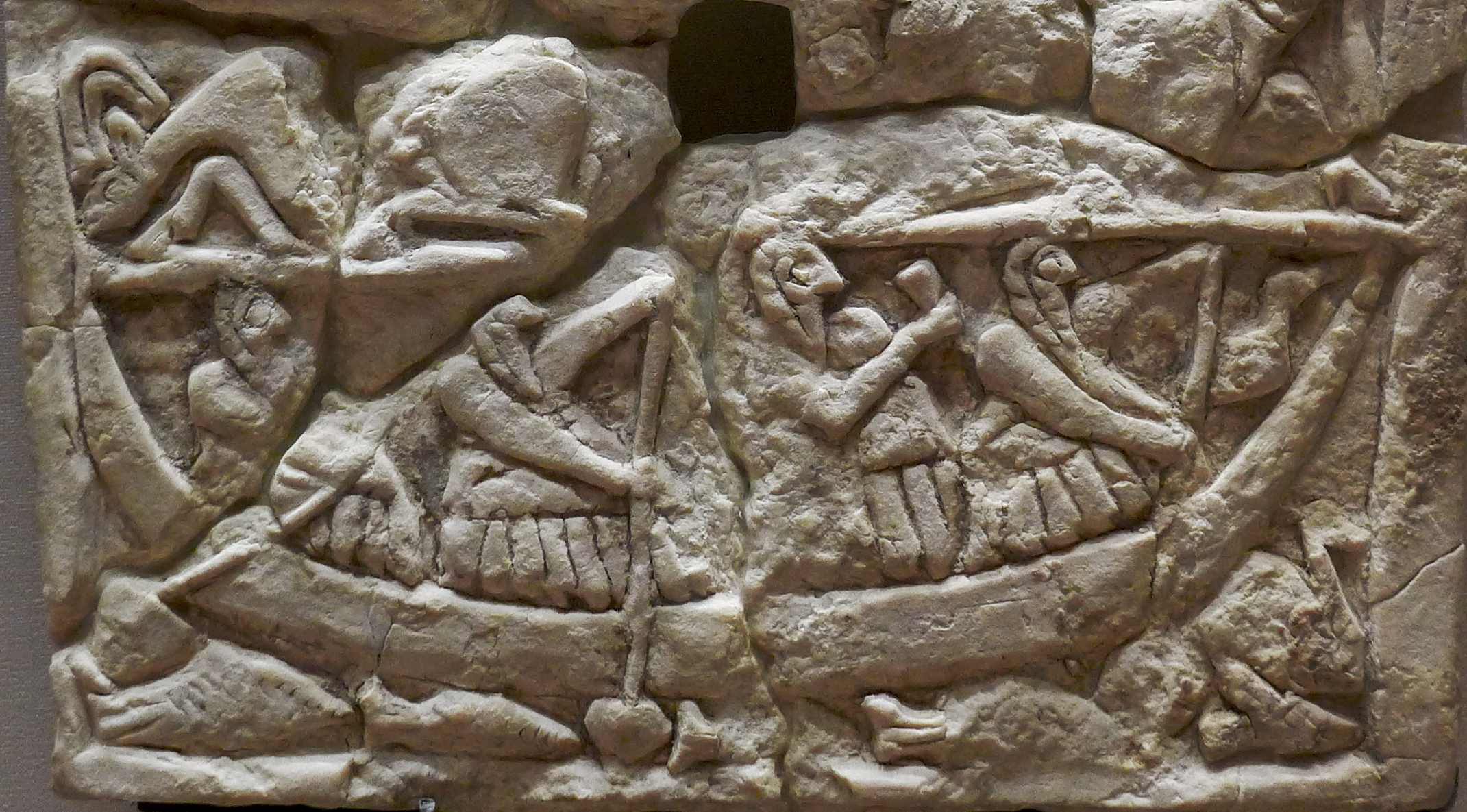 Mesopotamian ship between circa 2700 and circa 2650 date QS:P,+2500-00-00T00:00:00Z/6,P1319,+2700-00-00T00:00:00Z/9,P1326,+2650-00-00T00:00:00Z/9,P1480,Q5727902 av. J.-C.